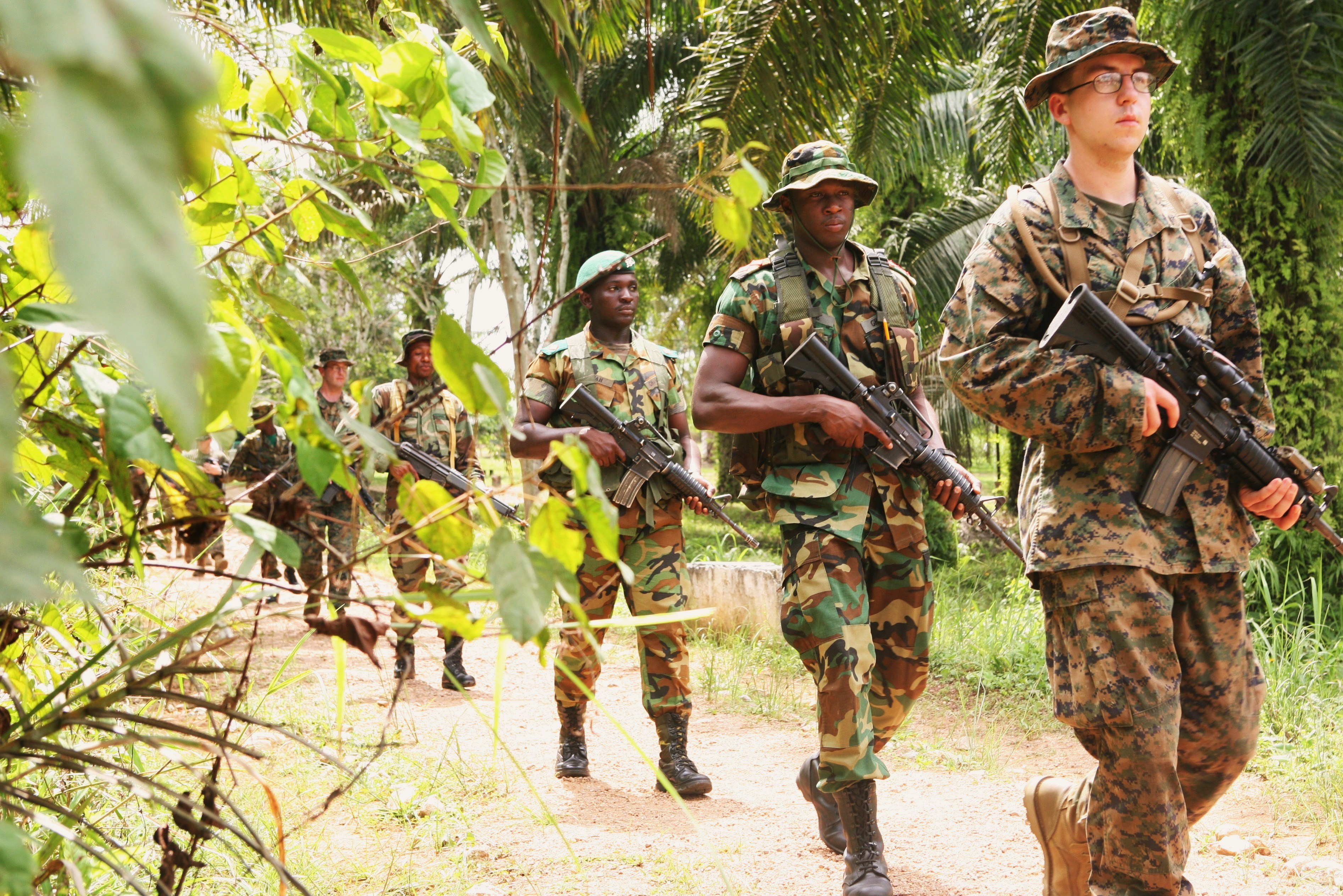 Lance Cpl. Joshua Hyatt of third platoon, Ground Combat Element, Security Cooperation Task Force Africa Partnership Station 2011 leads a foot patrol made up of third platoon Marines and Ghana Army soldiers at the Jungle Warfare School in Ghana. Surrounded by densely vegetated jungle, the Marines and Ghanaian soldiers executed several jungle warfare exercises while engaged in the two-week military-to-military exchange.